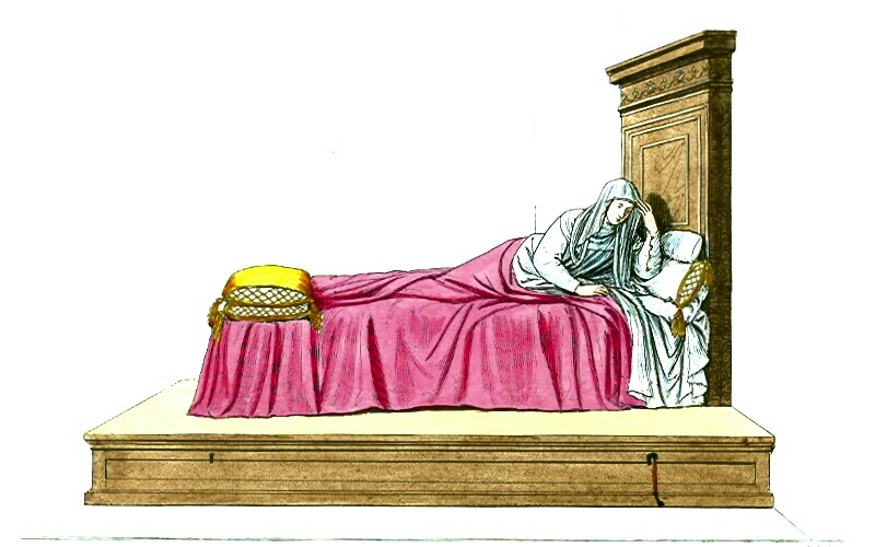 Illustration of renaissance clothing by Paul Mercuri from "Costumes Historiques" (Paris, ca.1850′s or 60’s). Scanned and archived at where it was marked as Public Domain.